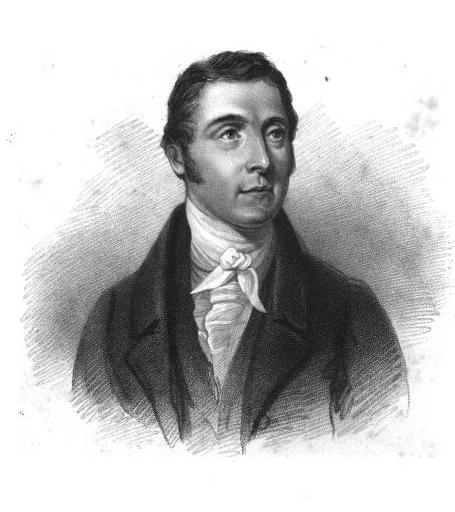 Portrait of Charles Mills (1788–1826), English historian.